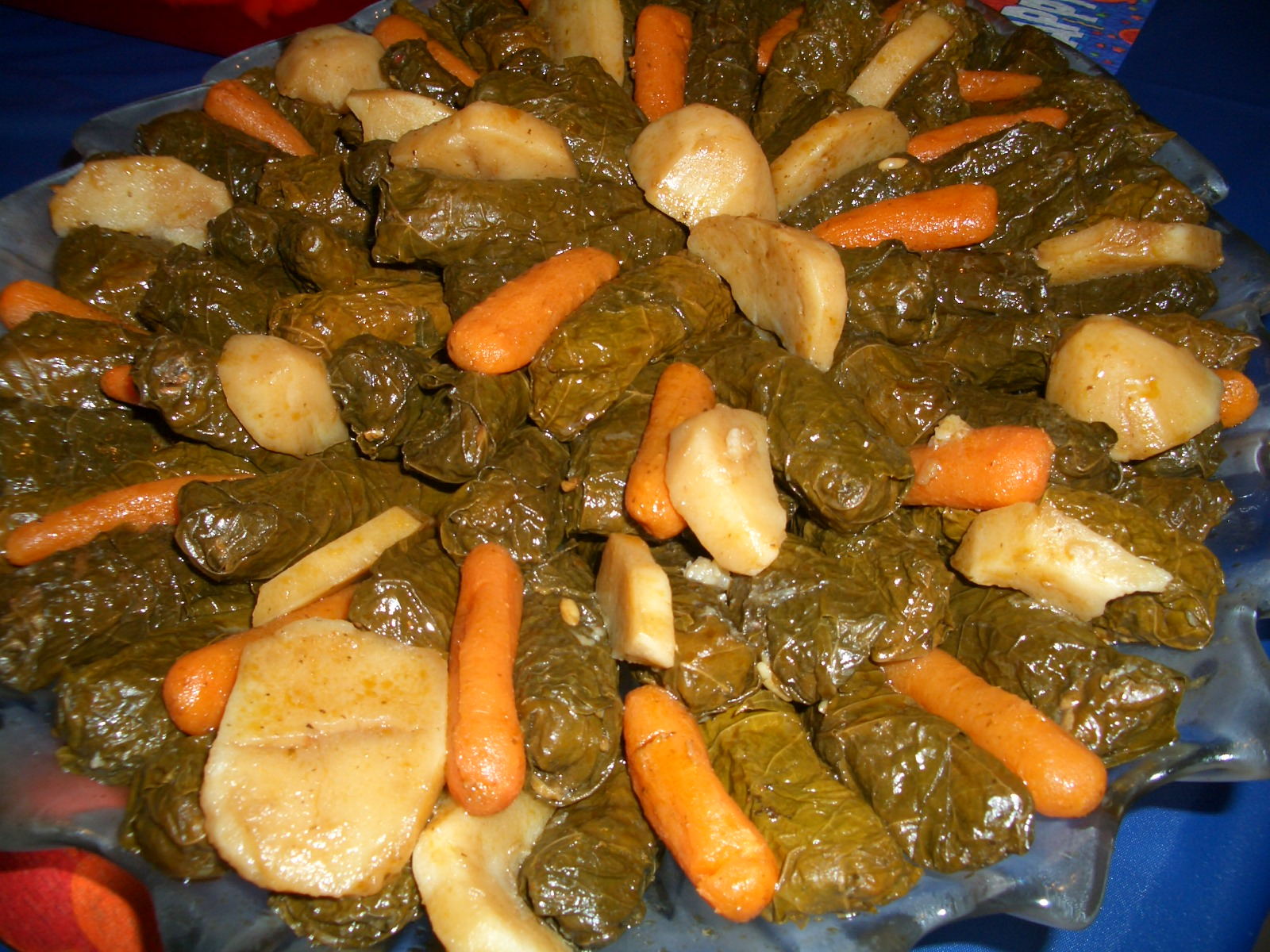 Dolma with potatoes and carrots served cold. Called Yalange in Arabic.